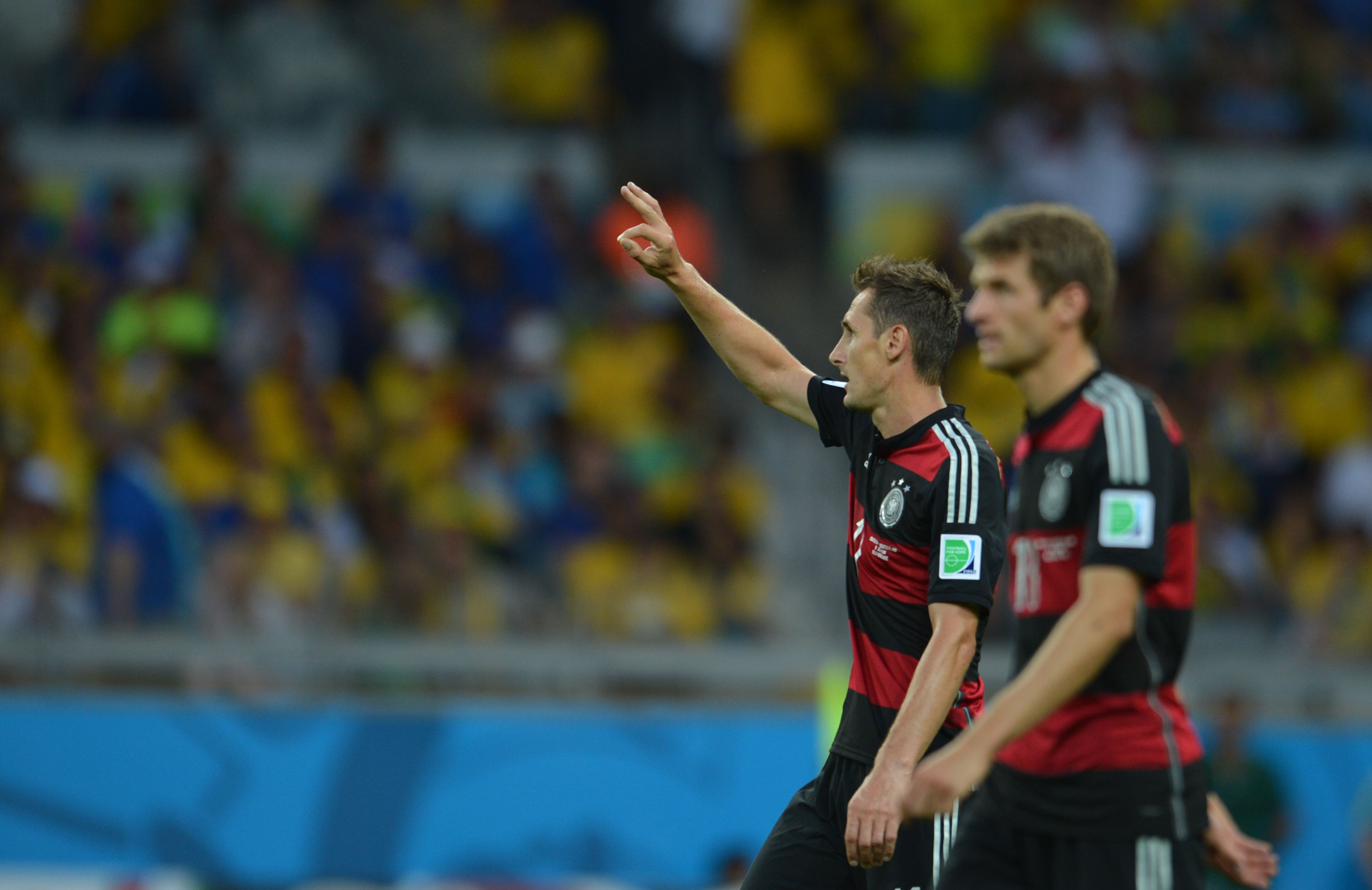 Brazil vs Germany, in Belo Horizonte